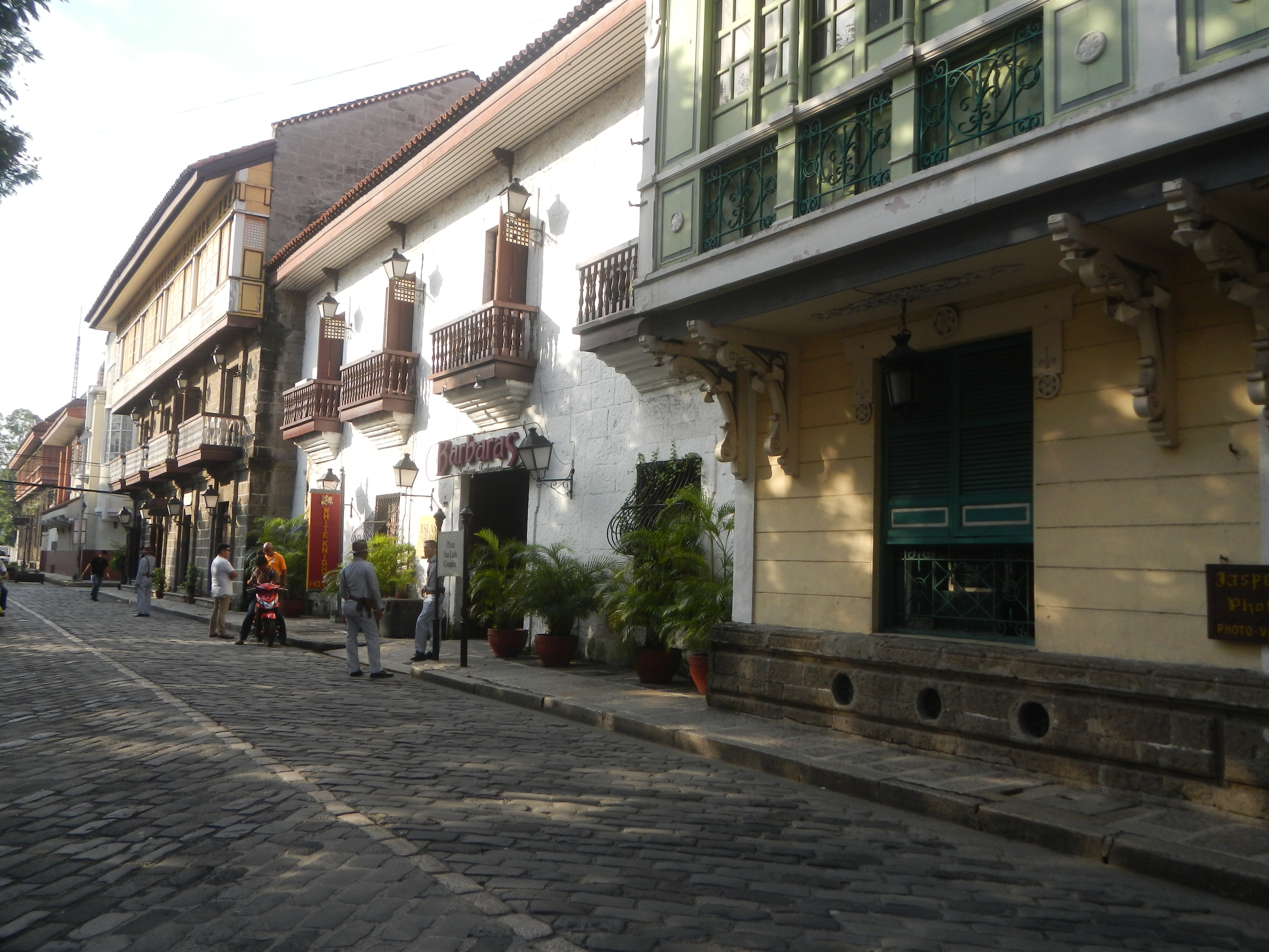 General Luna (Calle Real de Palacio) Street Tamayo's Business Center, Barbara's Heritage Restaurant, Patio Victoria (Plaza San Luis Complex) Intramuros, Landmarks include the San Agustin Church El Almanecer Compound (Intramuros) Knights of Columbus Building, Intramuros corner Arzobizpo Street; (Note: Judge Florentino Floro, the owner, to repeat, Donor Florentino Floro of all these photos hereby donate gratuitously, freely and unconditionally all these photos to and for Wikimedia Commons, exclusively, for public use of the public domain, and again without any condition whatsoever).